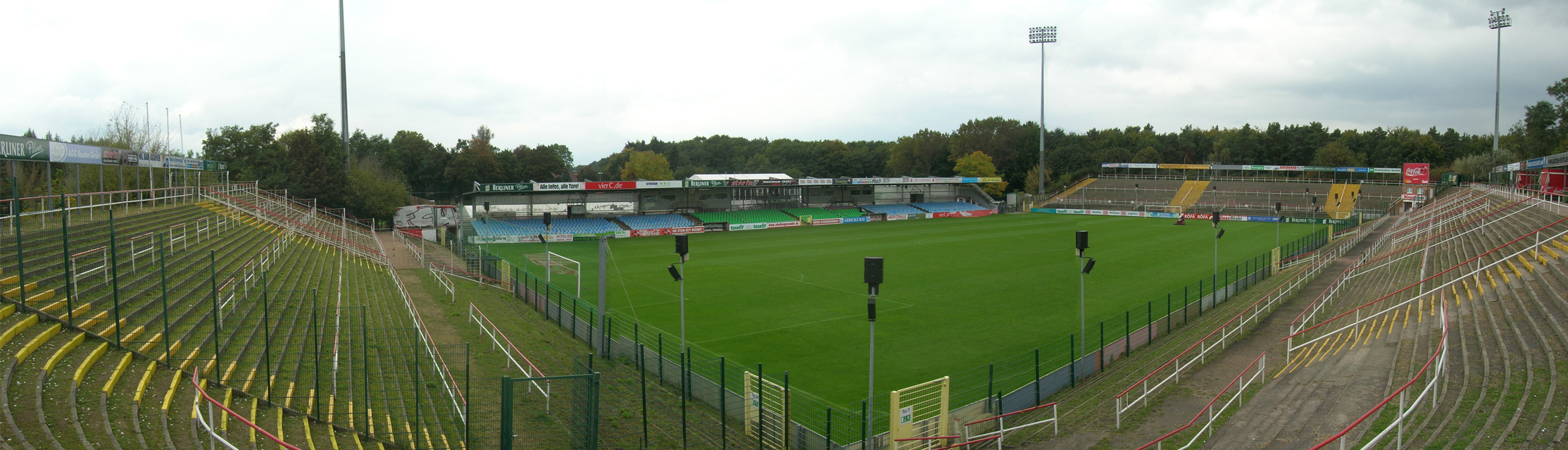 Panorama view of the Stadium